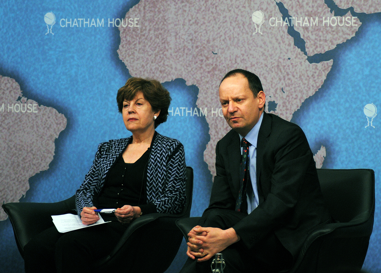 Elizabeth Wilmshurst CMG and Philippe Sands QC at the Chatham House event Does the UK Need Its Own Bill of Rights?, 14 January 2013